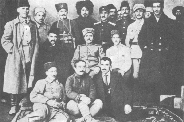 General Andranik with the Military Council of Goris in 1918.